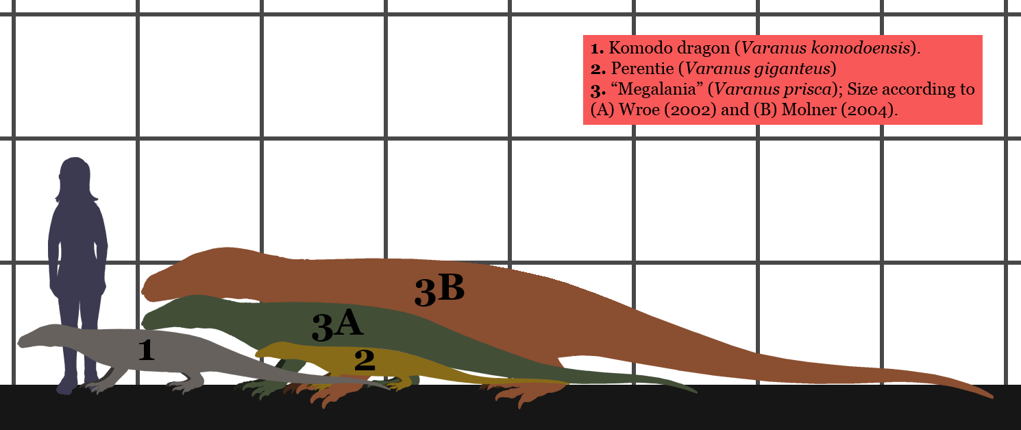 Estimated sizes of the extant monitor lizards Komodo dragon (Varanus komodoensis) and Perentie (Varanus giganteus), compared to different estimated sizes of the "Megalania" (Varanus prisca).